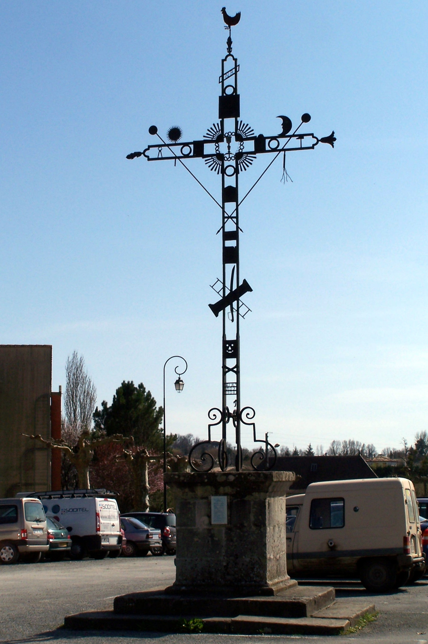 Mission cross in Monségur (Gironde, France)